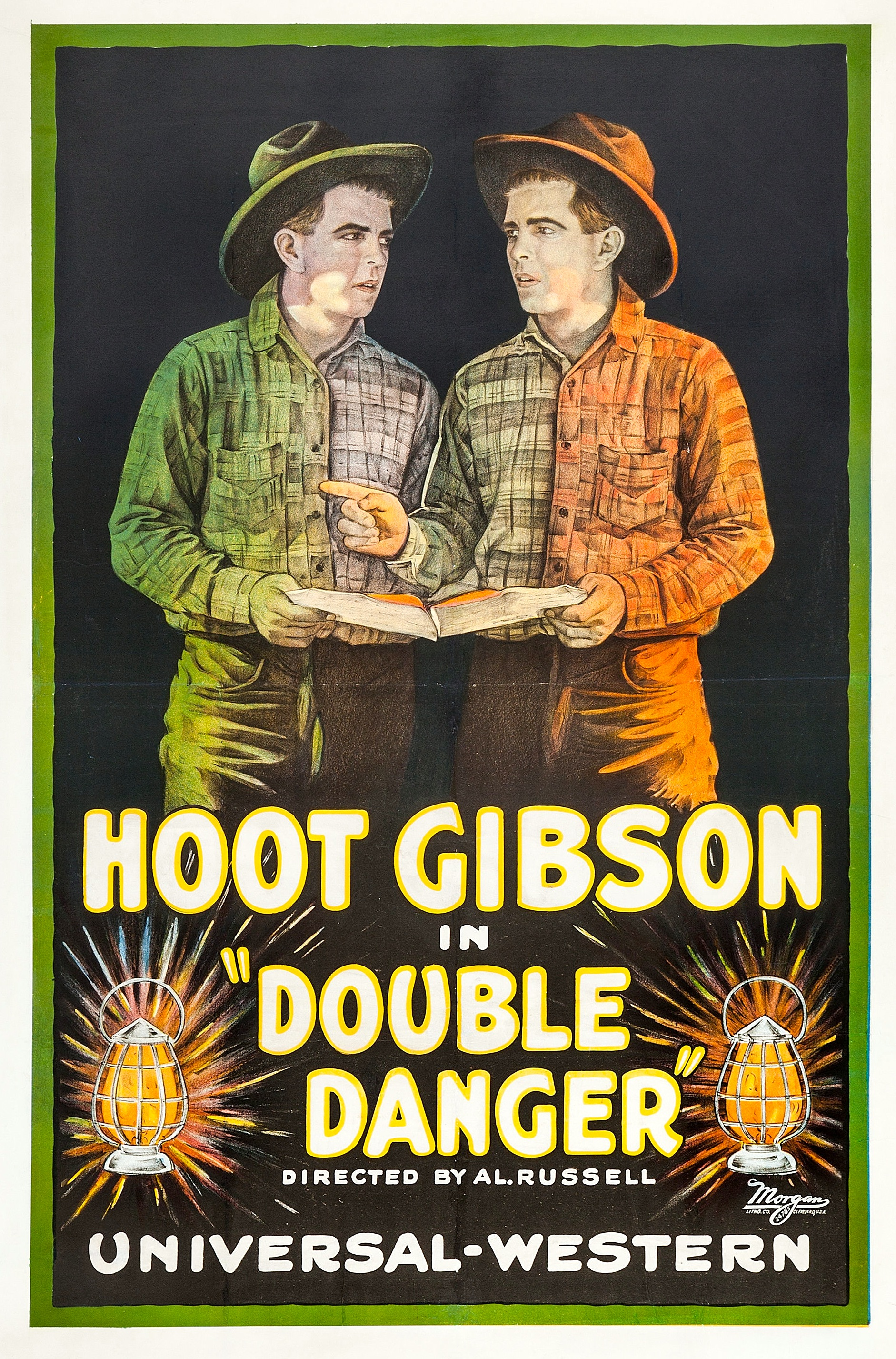 Double Danger is a 1920 short Western film directed by Albert Russell and featuring Hoot Gibson. This is a poster for the film.